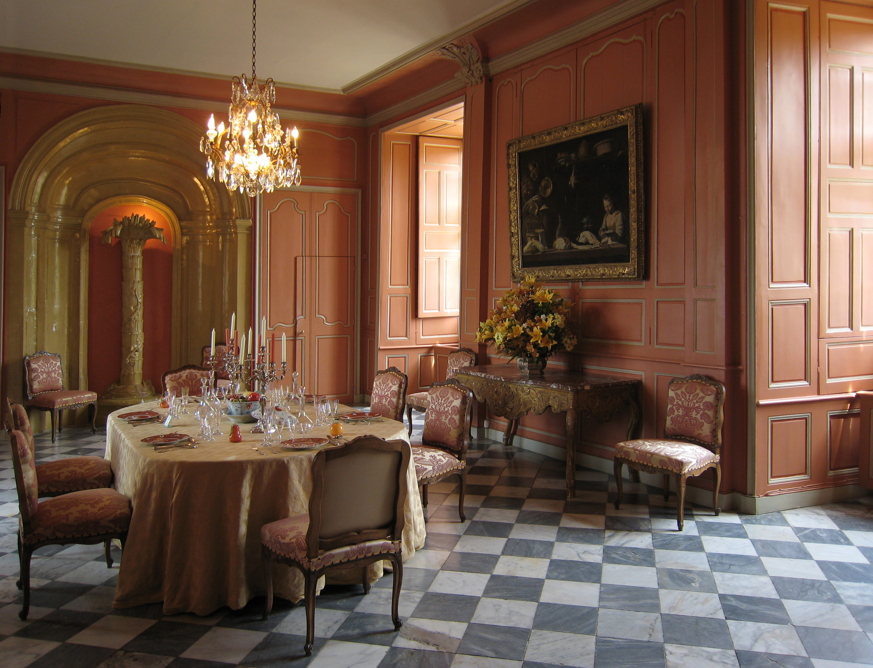 Diningroom of Castle Villandry/France